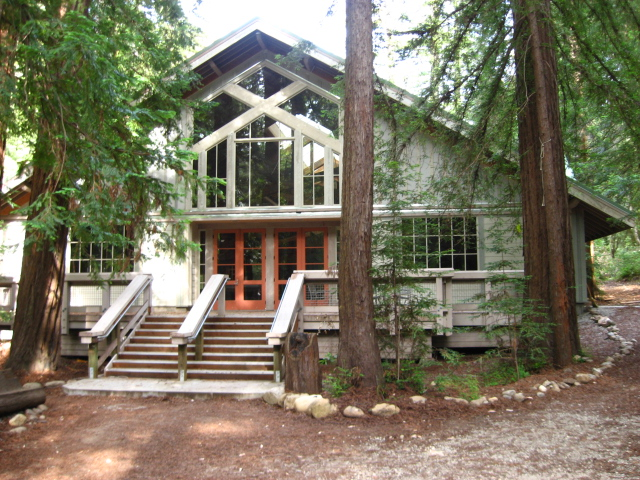 The Haywood Dining Lodge at Camp Pico Blanco Boy Scout camp in Central California.